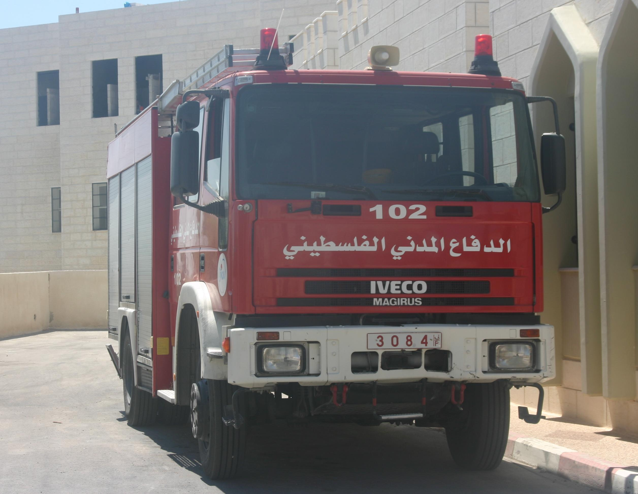 Firetruck Iveco-Magirus in the fire station in al-Ubeidiya